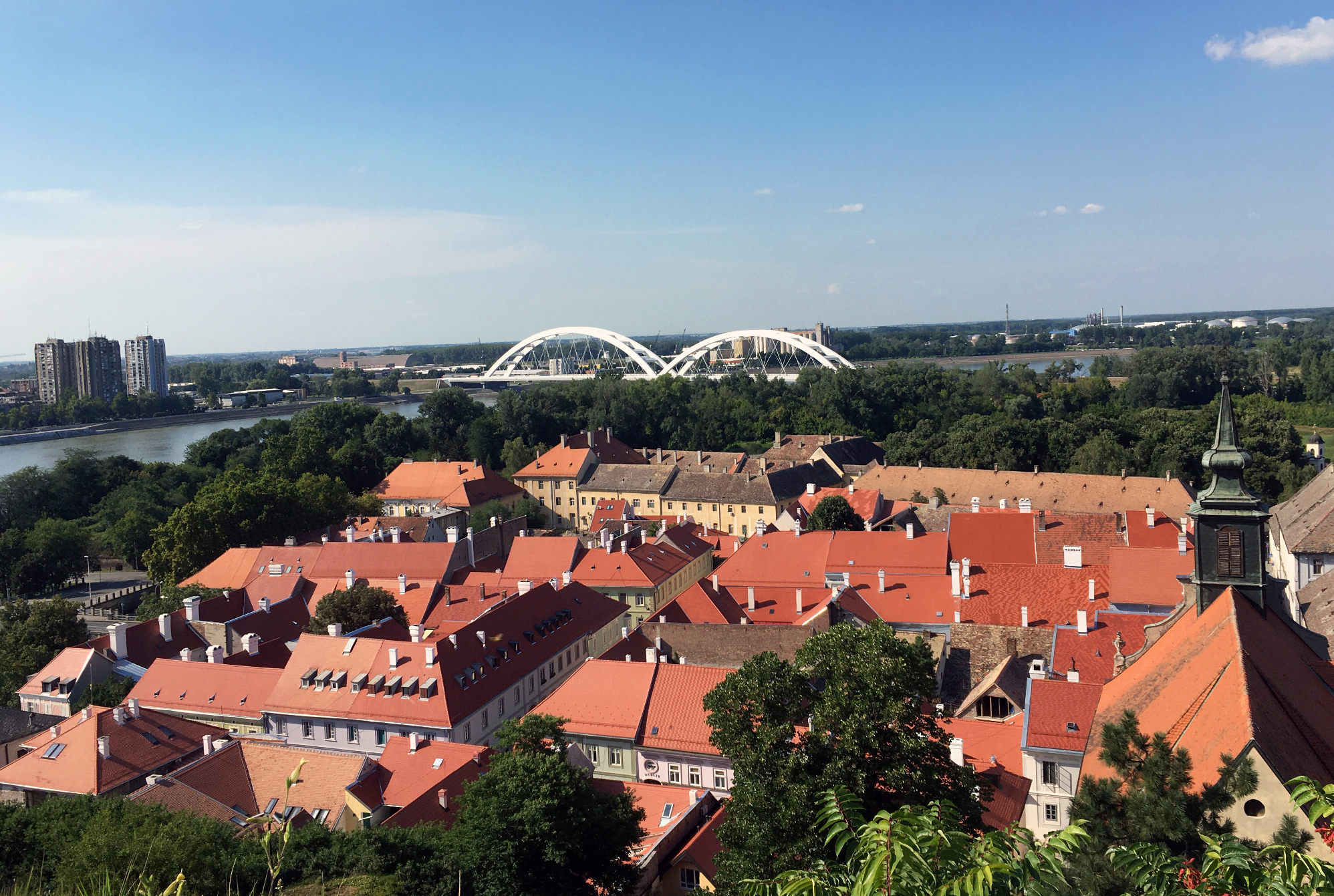 Petrovaradin panorama